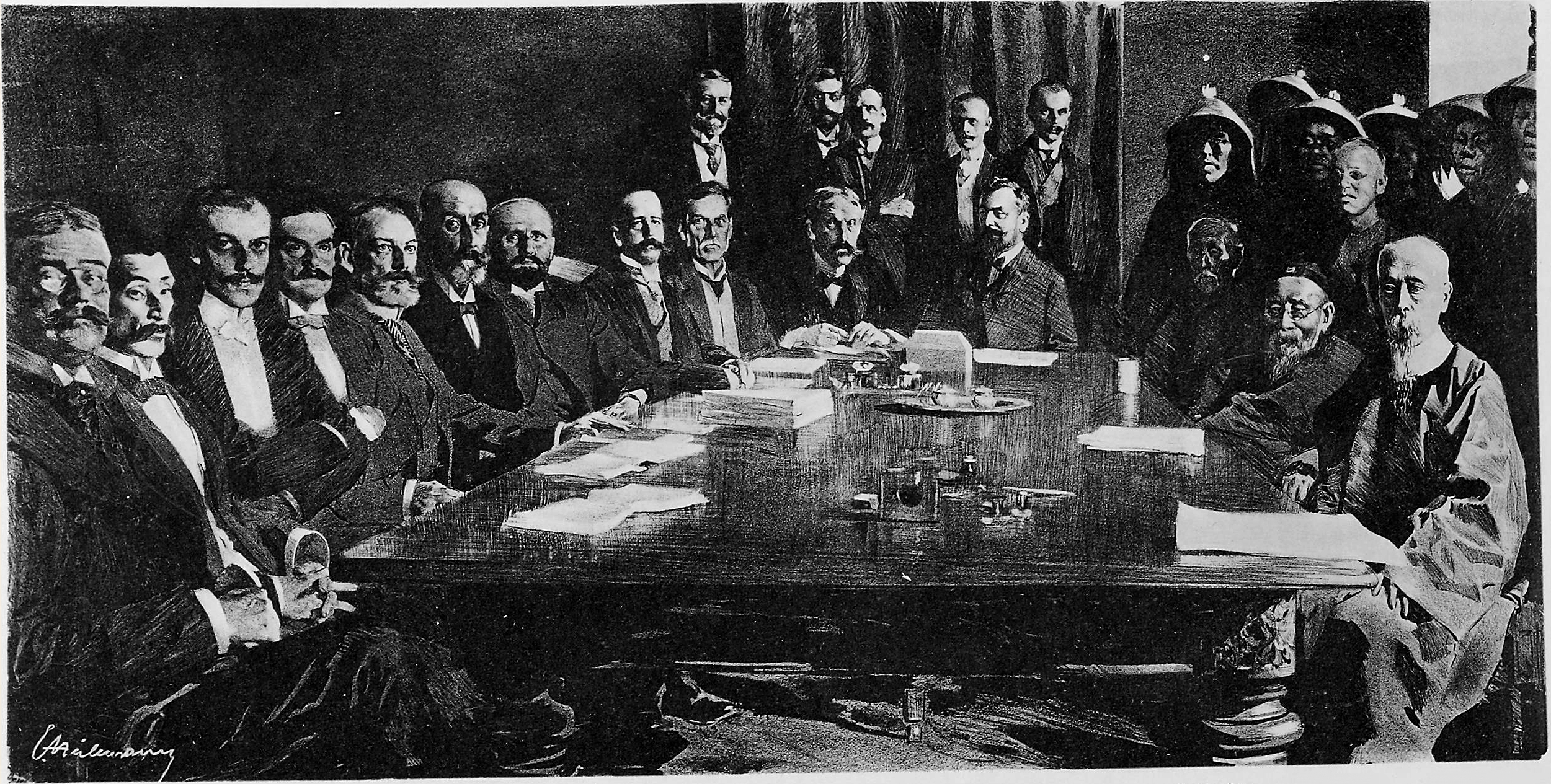 The signing of the Boxer Protocol on 7 September 1901. From left to right: Fridolin Marinus Knobel from Netherland, Komura Jutaro from Japan, Guiseppe Salvago-Raggi from Italy, Maurice Joostens from Belgium, Czikann von Walhborn from Austria-Hungary; Bernardo Jacinto Cologán from Spain; Mikhail de Giers from Russia; Alfons Mumm von Schwarzenstein for German Empire; Ernest Mason Satow from United Kingdom; William Woodville Rockhill from US, Paul Beau from France, Lien-fang, Li Hongzhang, Yikuang (Prince Qing).